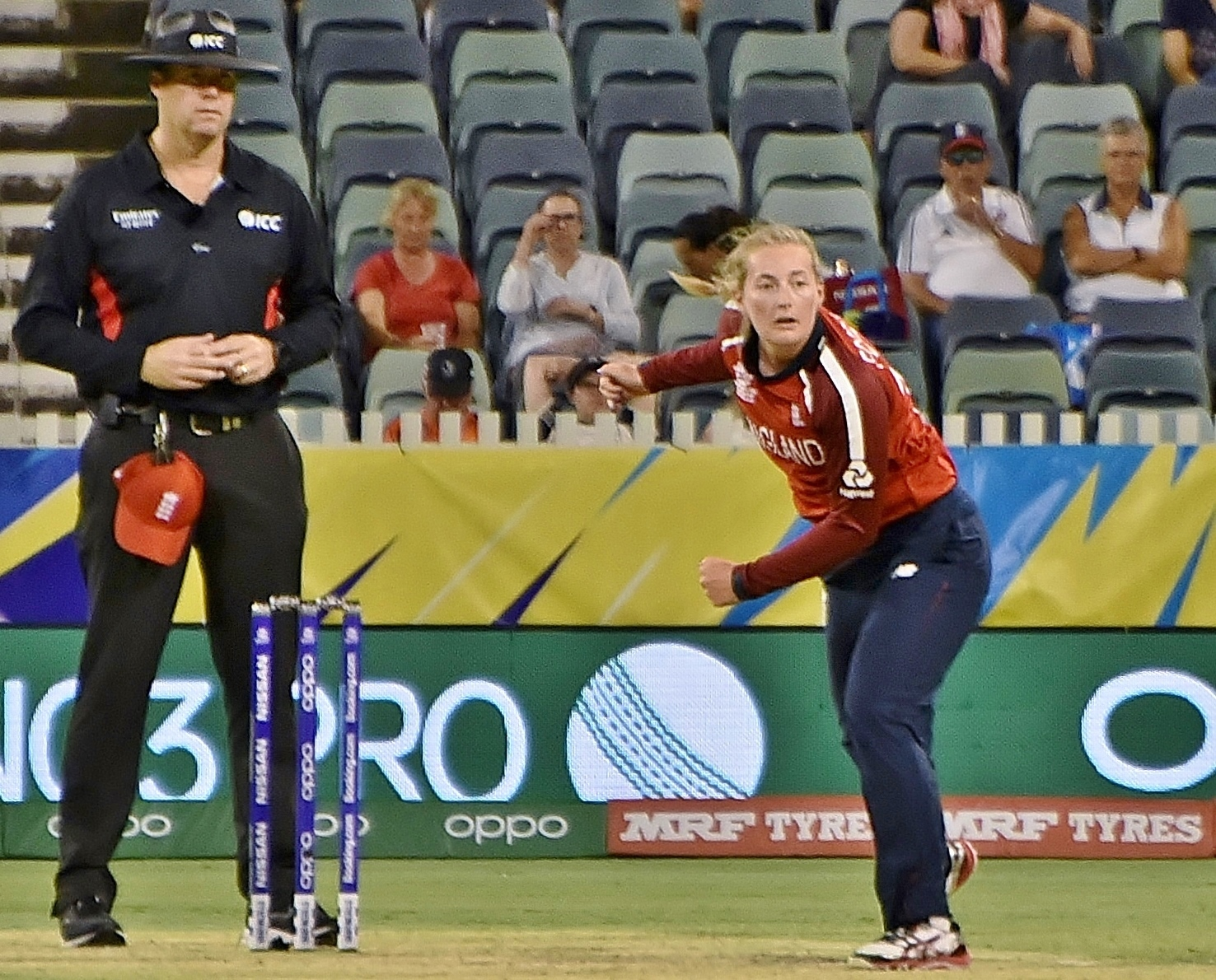 Sophie Ecclestone bowling for England against South Africa during their 2020 ICC Women's T20 World Cup match at the WACA Ground in Perth, Australia